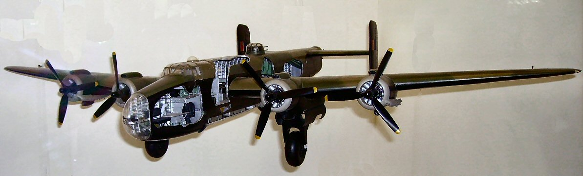 Author Michael J Young Taken at the London Science Museum